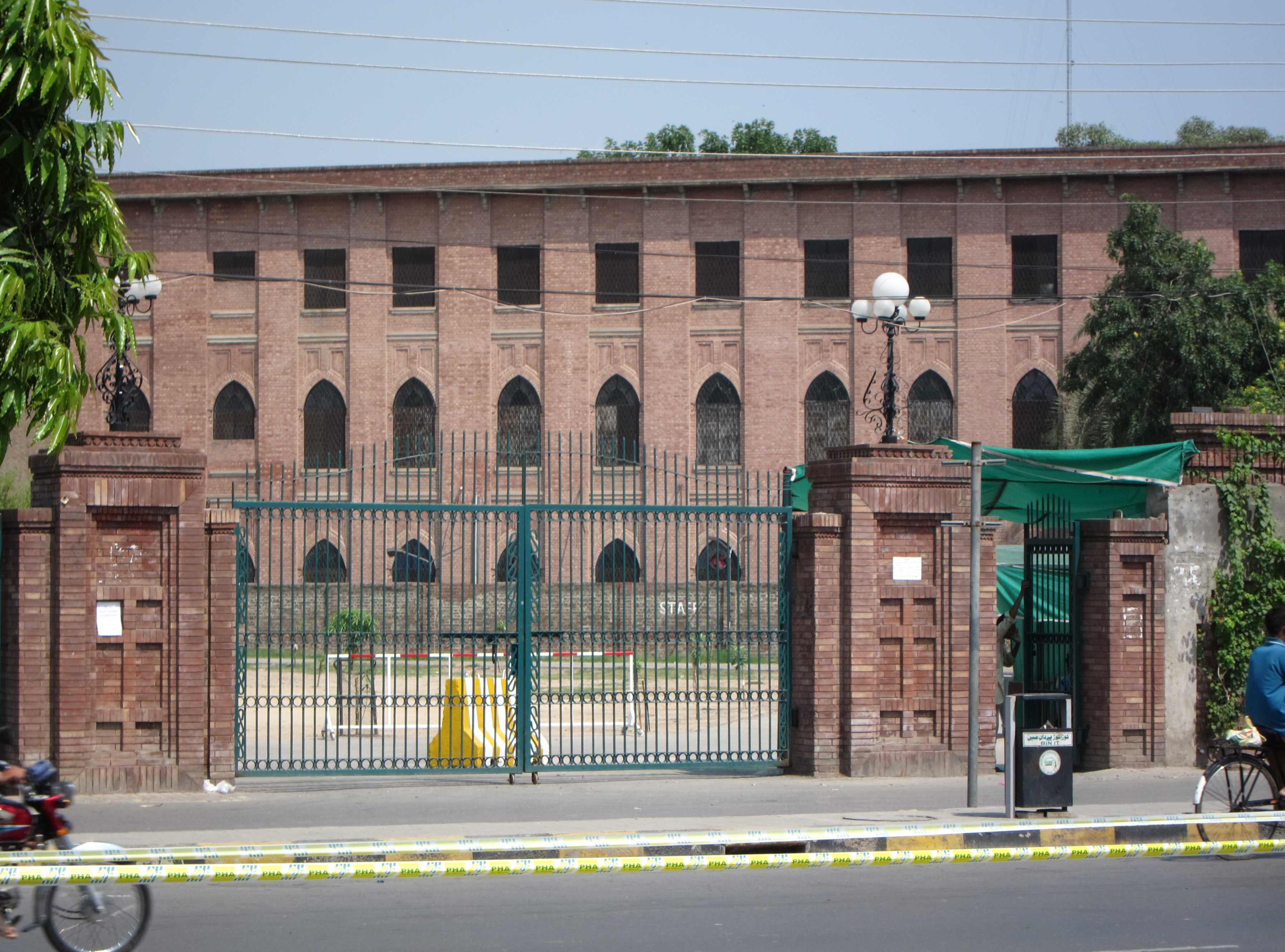 Kinnaird College Gate 2 This is a photo of a monument in Pakistan identified as the PB-P-88